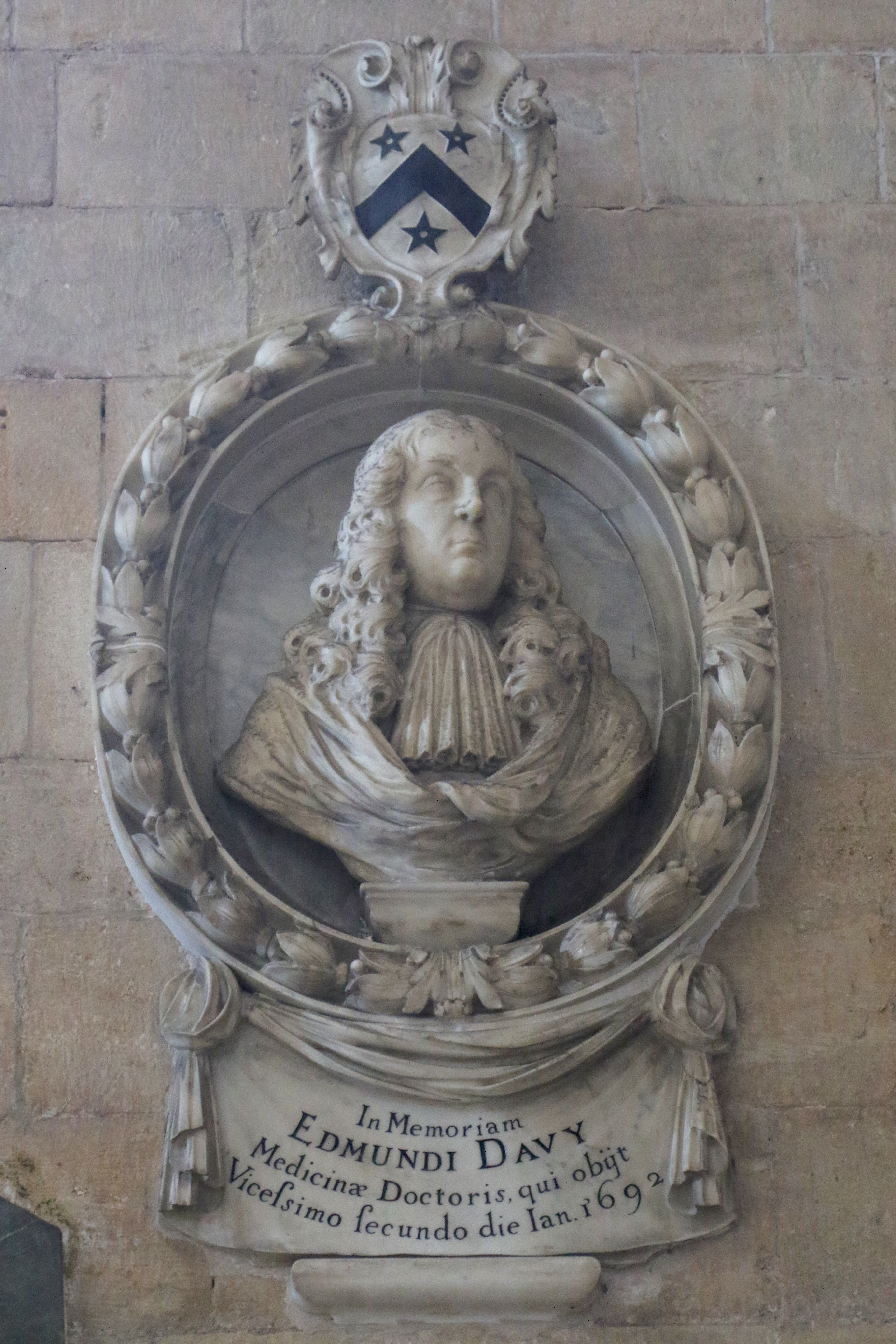 Mural monument in Exeter Cathedral, Devon, of Dr Edmund Davie (1630-1692), a Doctor of Physick, who lived at the Chantry in Exeter, one of the "Worthies of Devon" of John Prince (1643–1723), of whom he was an acquaintance. Prince described him as "The great Aesculapius of his time in these western parts". His mural monument survives in the south aisle of the Lady Chapel of Exeter Cathedral and displays his sculpted bust. According to Lysons, "Magna Britannia" (1822), he was the last in the male line of the Davie family of Canonteign. He was the younger son of Robert Davie (fl.1633) (third son of Robert Davie (1564-pre-1617) of Canonteign, Devon) by his wife a certain Rachell (fl.1633), who are said to have emigrated to New England. Latin inscription: In memoriam Edmundi Davy, Medicinae Doctoris, qui obiit vicessimo secundo die Jan(uarii) 1692 ("In memory of Edmund Davy, Doctor of Medicine, who died on the twenty second day of January 1692"). Above are shown the arms of Davie of Crediton, Creedy, Ruxford, Canonteign, etc.: Argent, a chevron sable between three mullets pierced gules (mullets here shown sable)